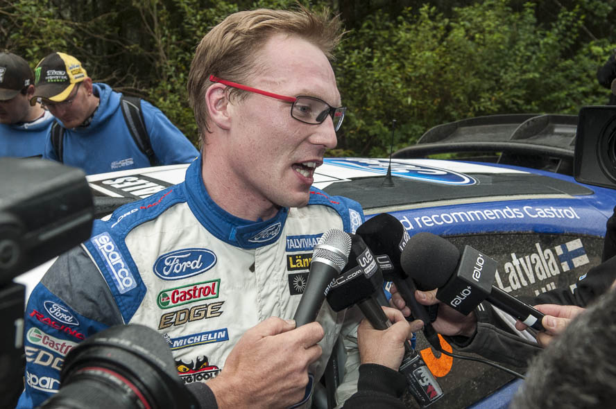 Wales Rally Great Britain 2012 Ford Fiesta RS WRC,Ford WRT,Ford World Rally Team,Jari-Matti Latvala,Likes Land Rover at Walters Arena 2,Motorsport,Power Stage,Rally,Rallye,SS19,WP19,WRC,Wales Rally GB,Zielankunft